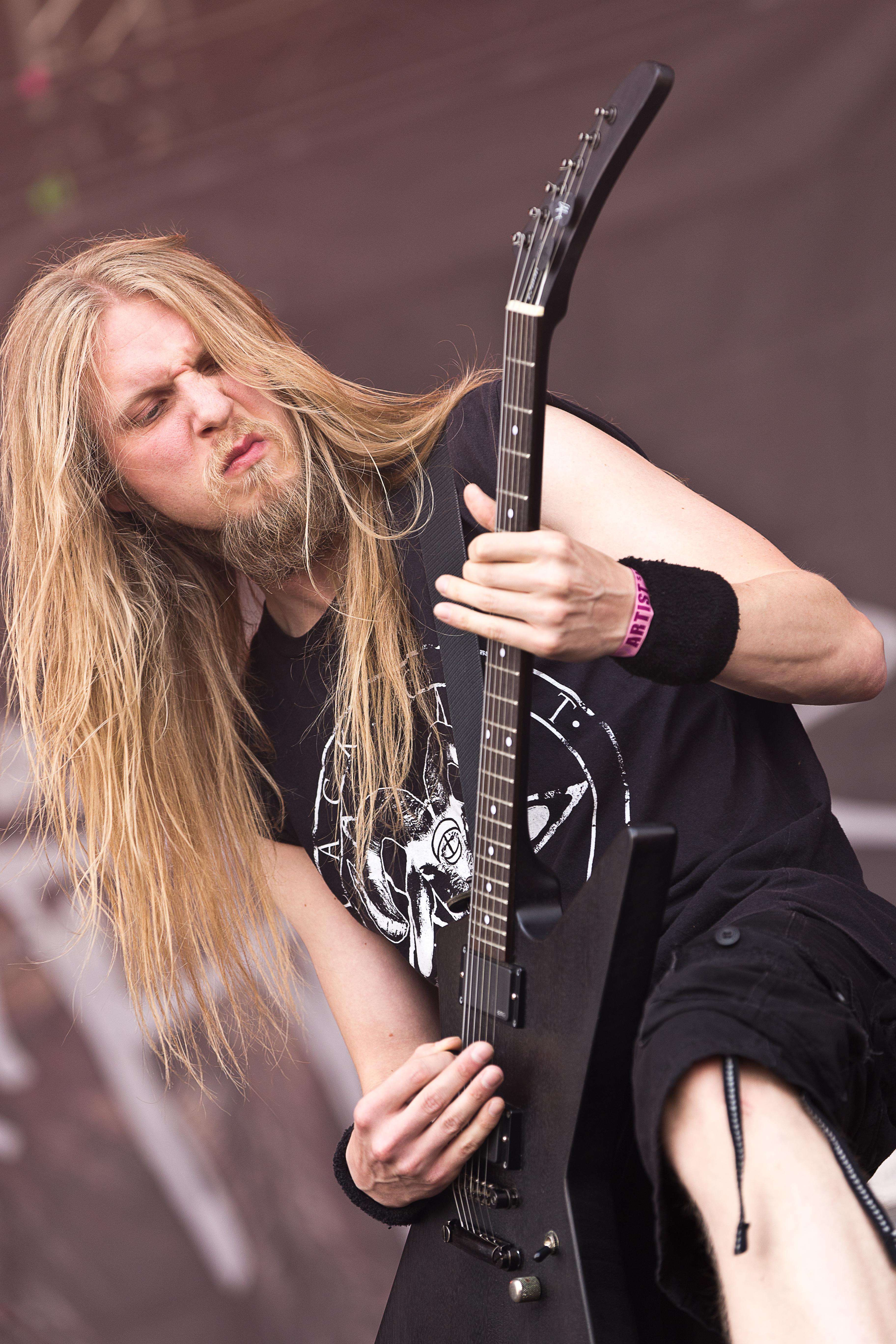 The German thrash metal band Cripper at the Rockharz Open Air 2015 in Ballenstedt/Germany.